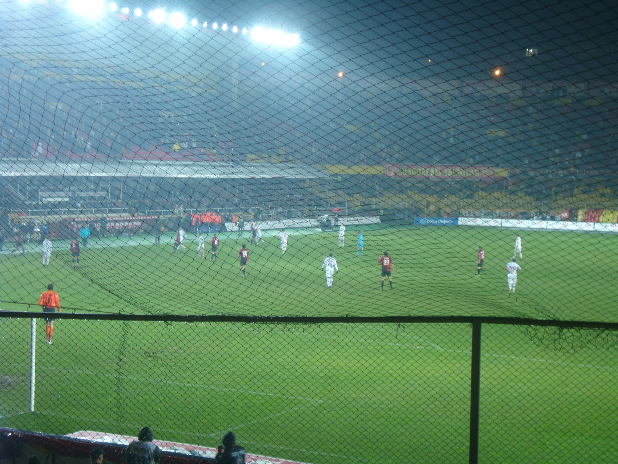 Turkish Premier Division Day 25 Galataray-Eskişehirspor matches Ali Samiyen Stadium